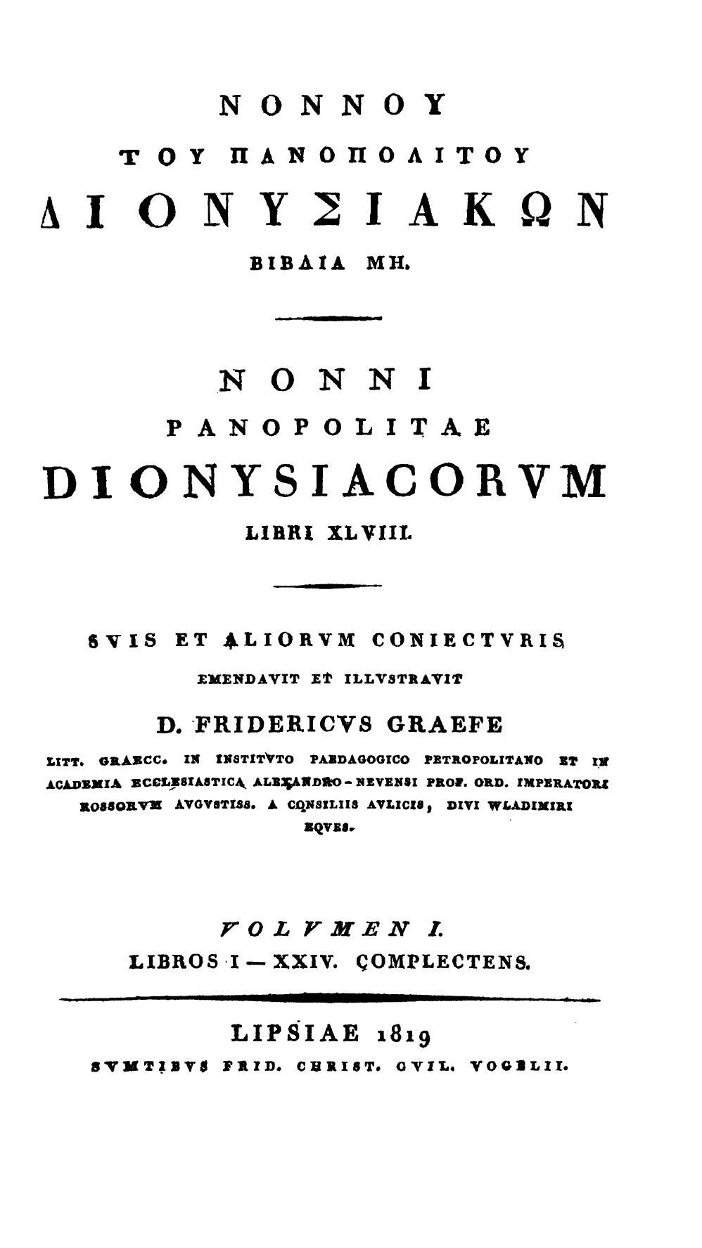 first page, edition 1819